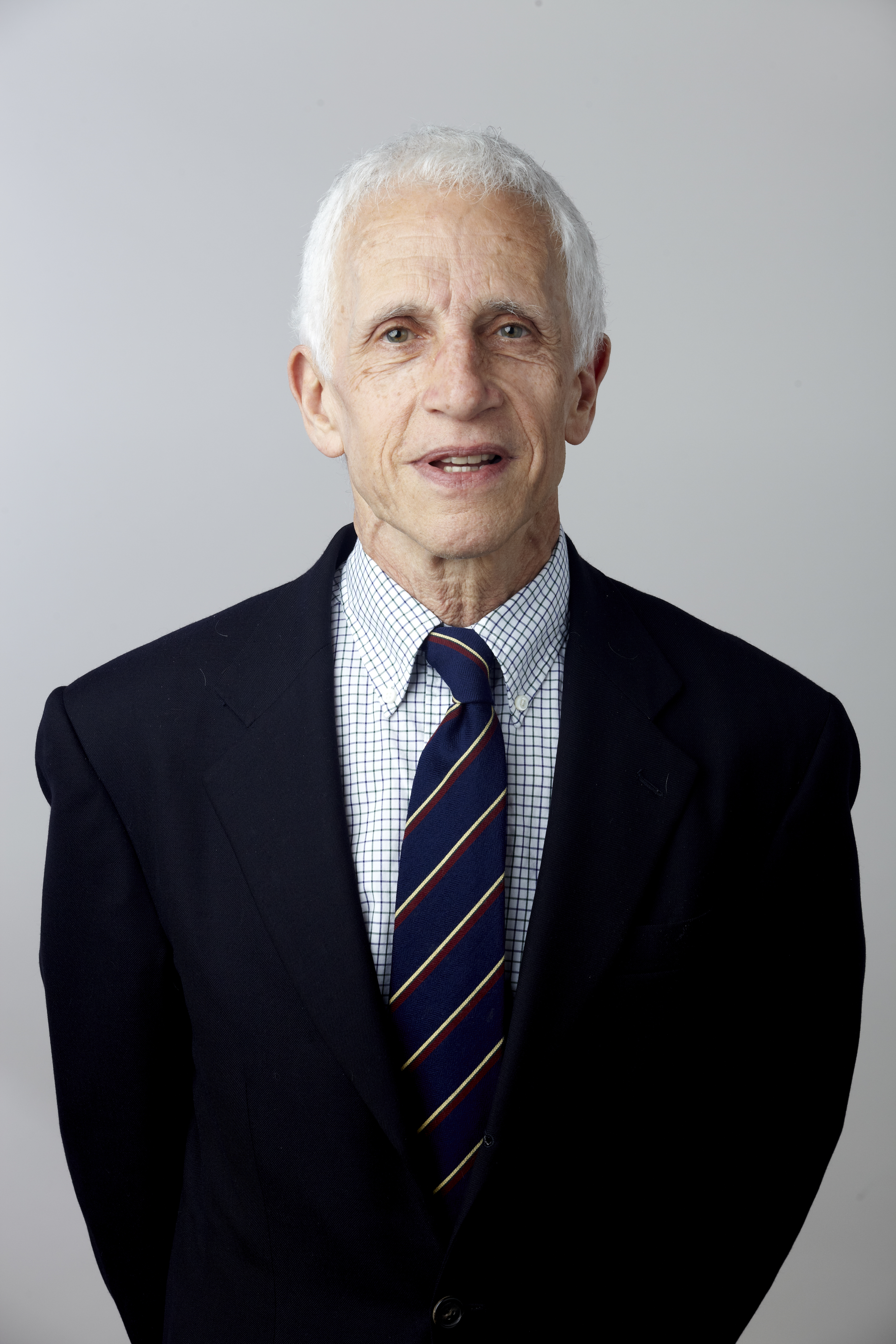 Professor Stephen Harrison ForMemRS, Royal Society Fellow elected 2014 Attribution: The Royal Society